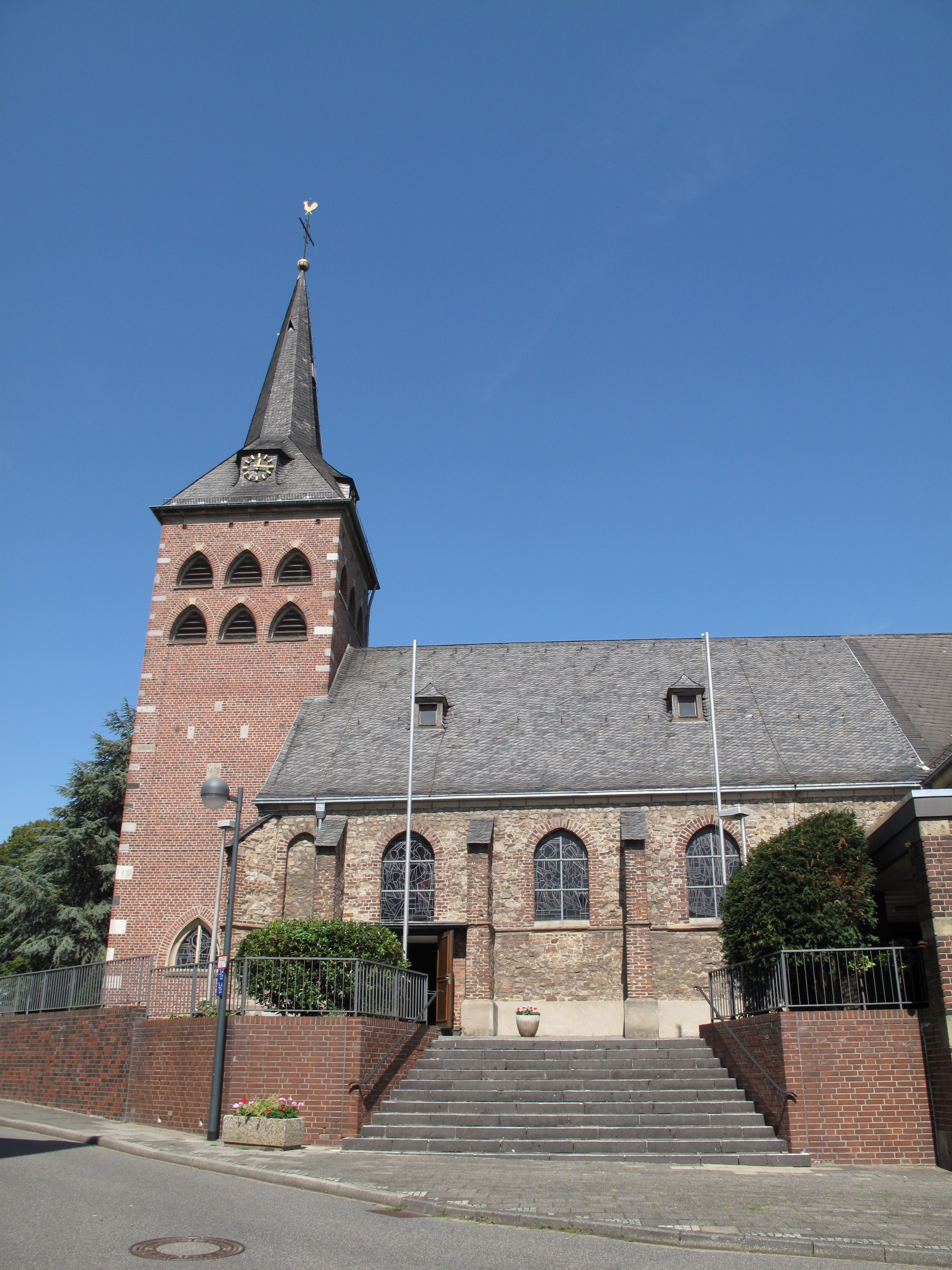 Koslar, church